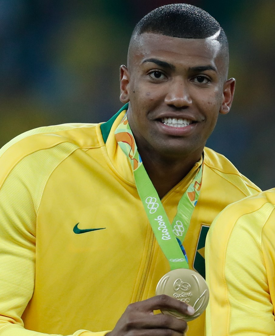 Walace Souza Silva after winning the Olympic Gold Medal 2016